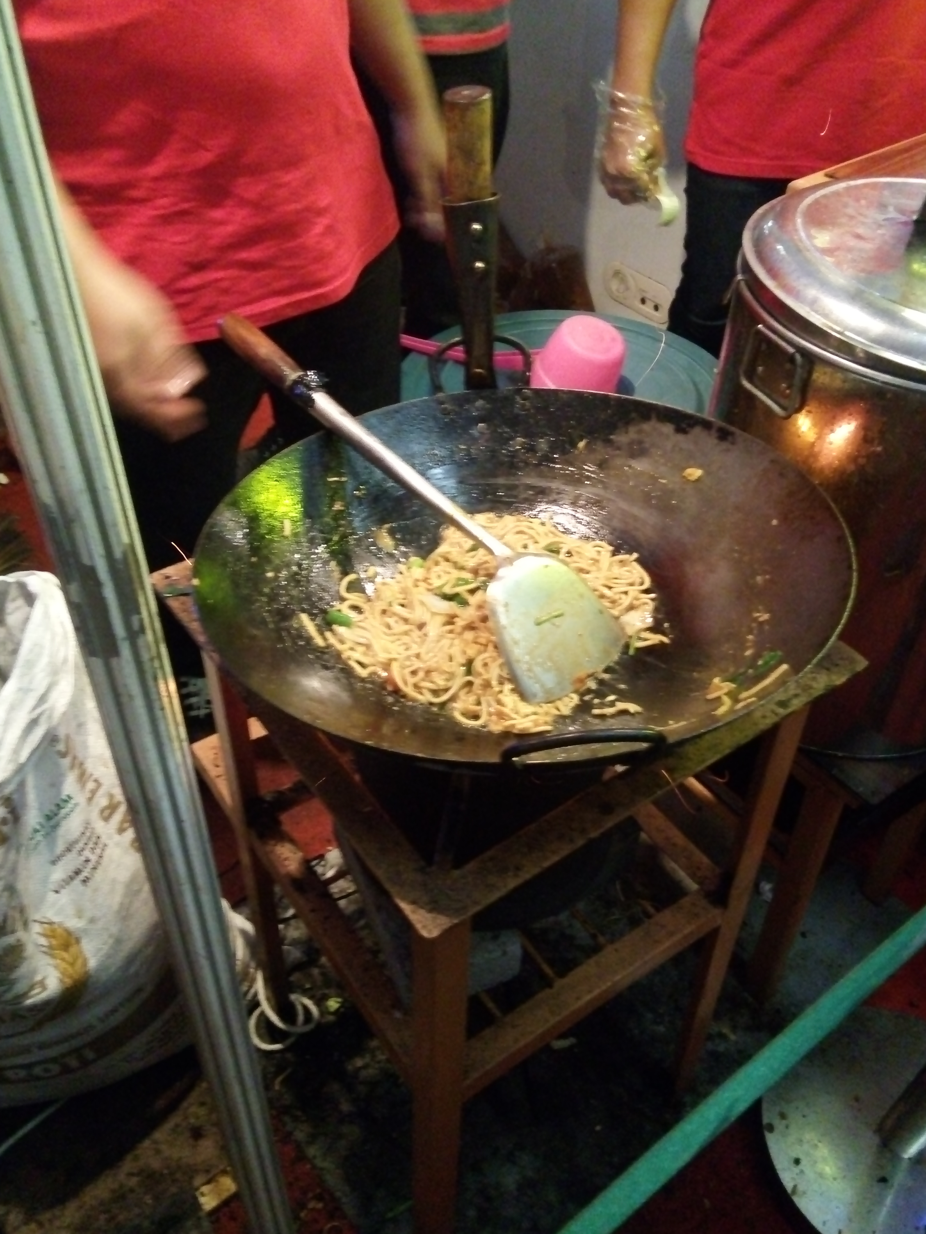 making mie goreng jawa